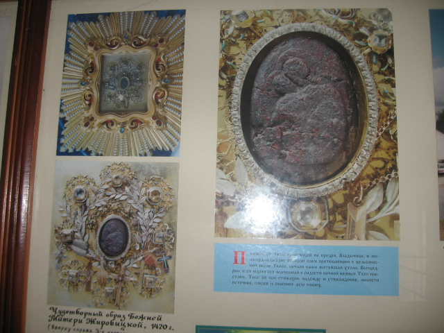 Church of the Assumption in Zhyrovichy